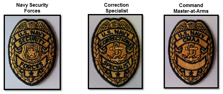 NSF patches.